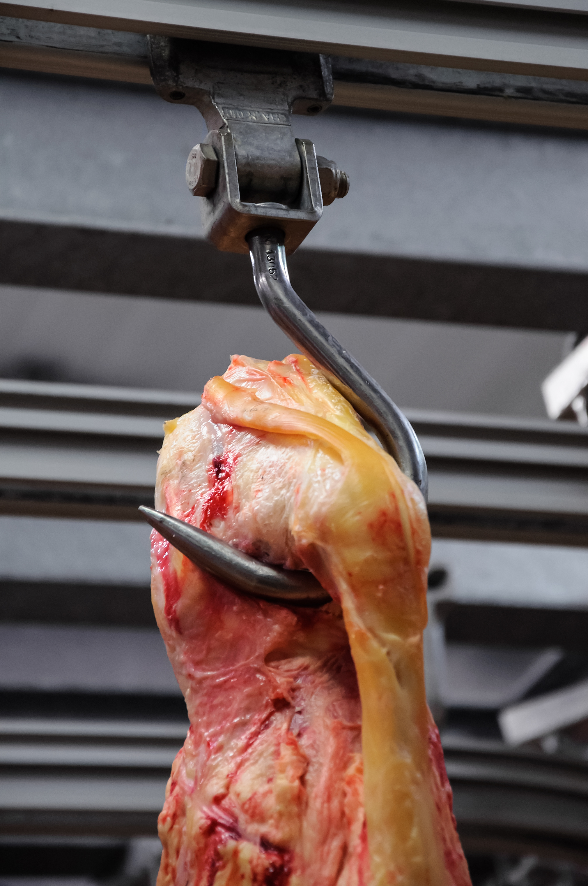 Meat hook on a meat hook rail - Rungis International Market, Val-de-Marne, France.